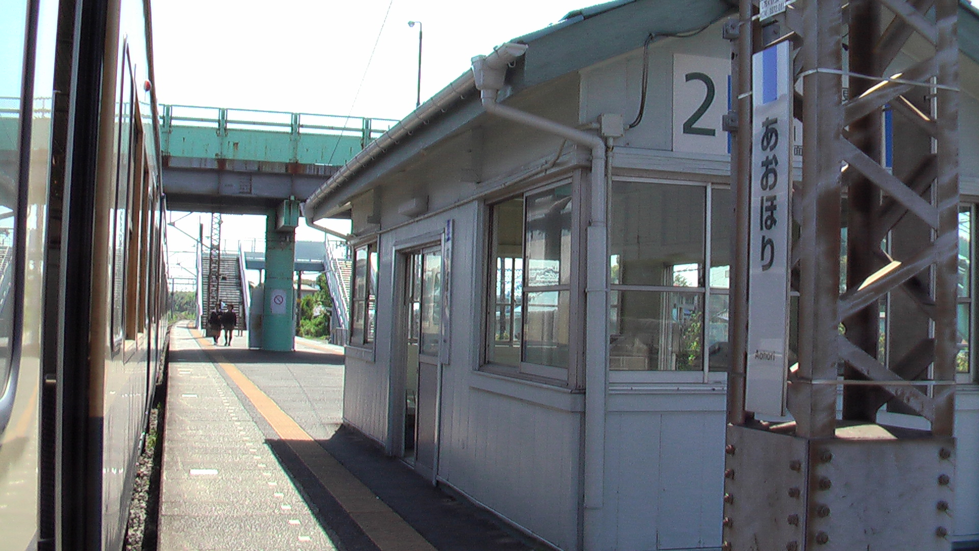 This is a shot I took of Aohori Station (青堀駅) in 2008 for use in Wikipedia (which didnt even have the applicable English page yet!) but I forgot to upload it. Here it finally is! Enjoy.